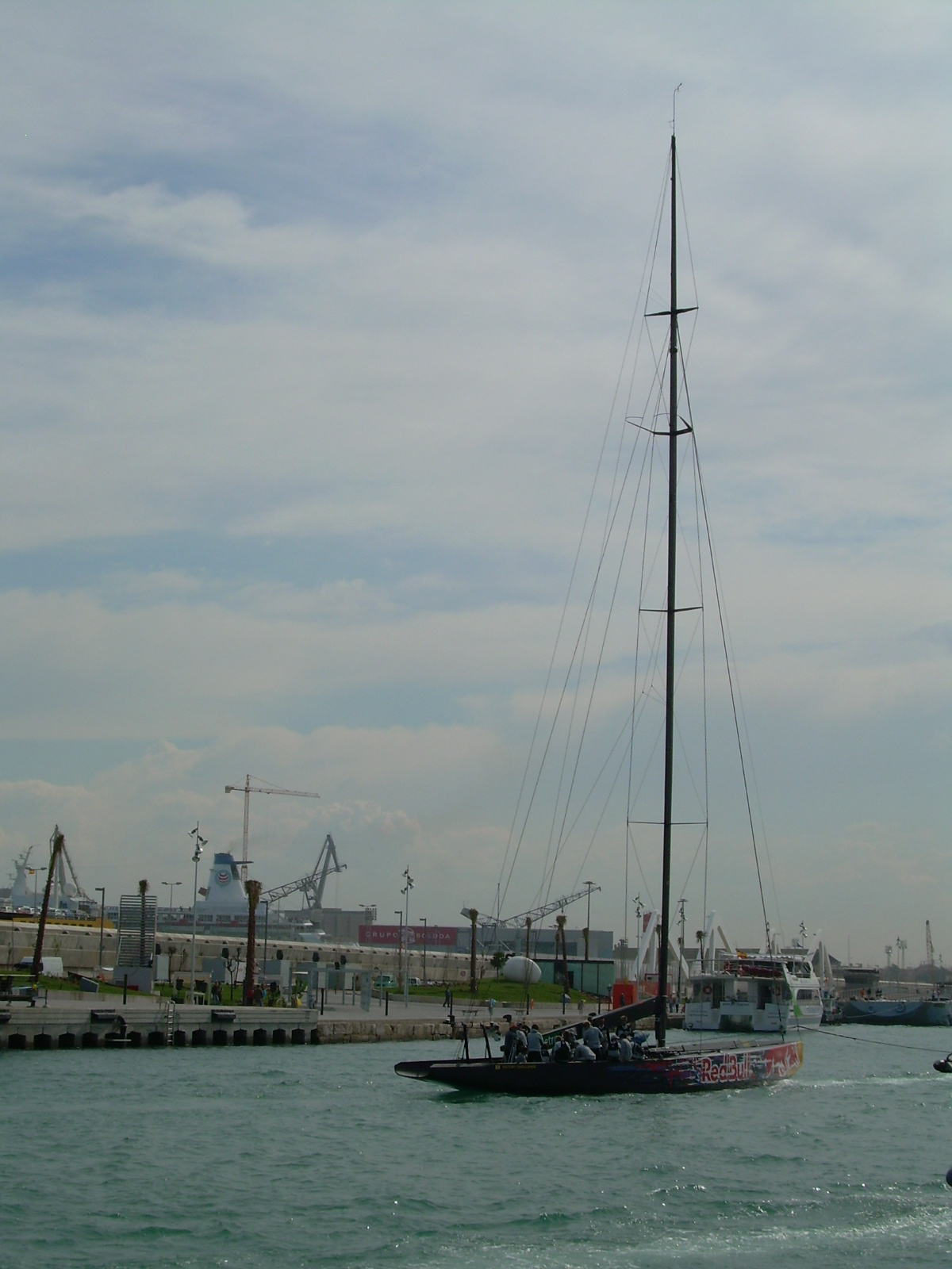 Victory Challenge's team in the 2006-07 edition of the America's Cup. Valencia, Spain.